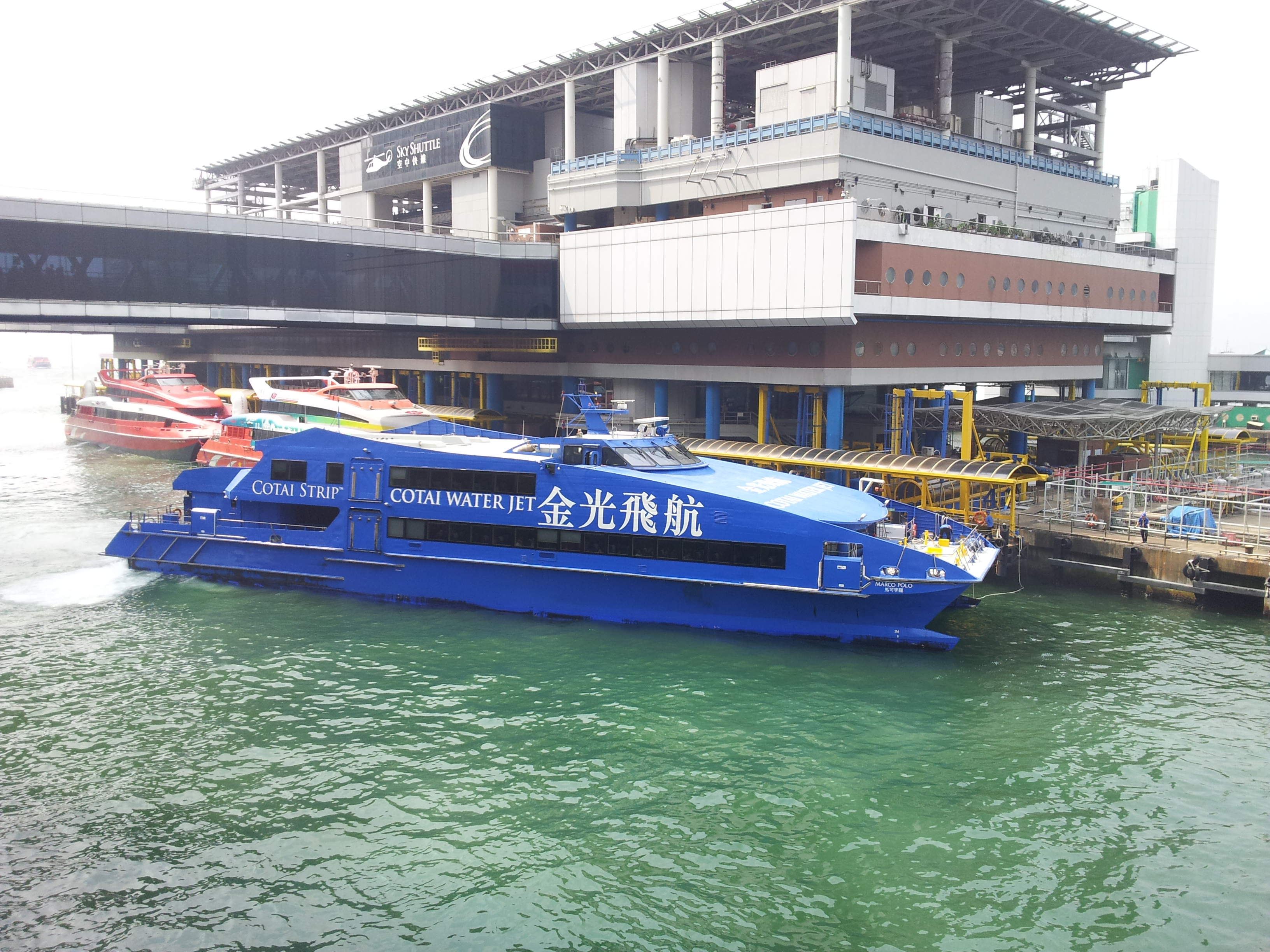 cotai water jet boat approaching hong kong pier